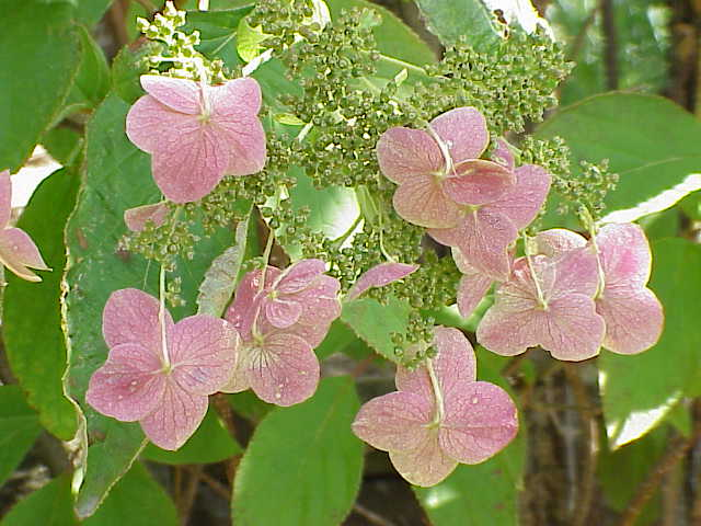 Species: Hydrangea arboresecens discolor Family: Hydrangeaceae Image No. 1